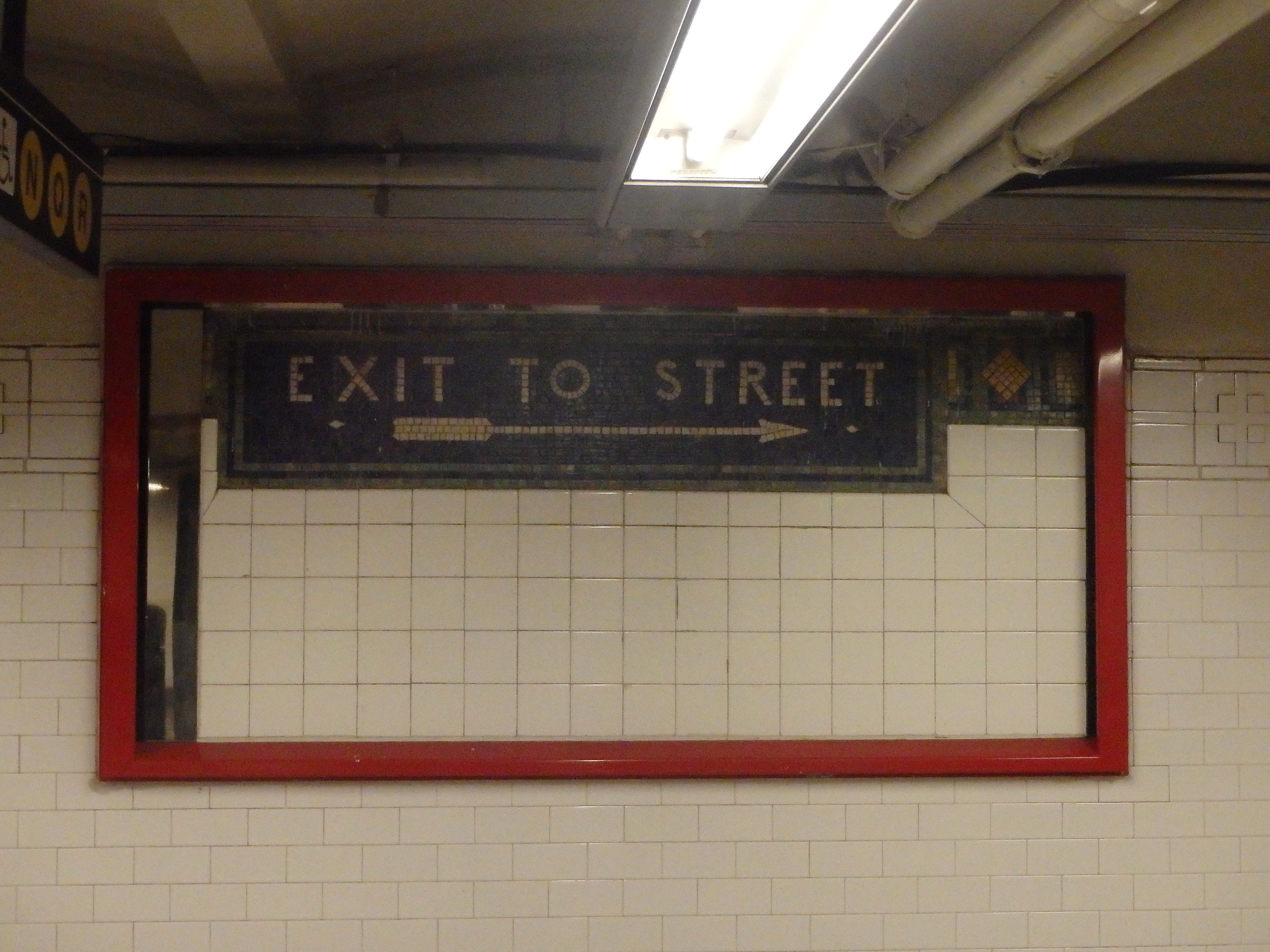 At 14 St, Broadway and Park Ave South.